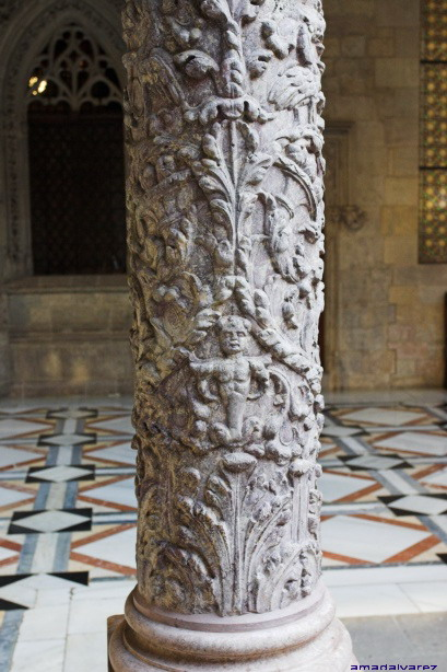 Column of Palau de la Generalitat (Catalan Government Seat) in Barcelona. 1545-1548 - Renaissance style.